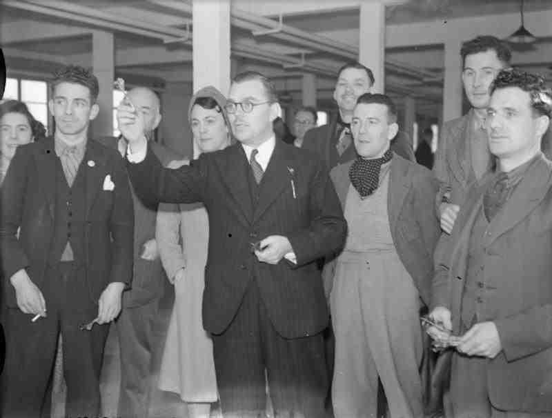 BILLY BUTLIN VISITS A MUNITIONS FACTORY, UK, 1941 MINISTRY OF INFORMATION SECOND WORLD WAR OFFICIAL COLLECTION